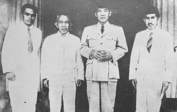 On 27 December 1949, President Sukarno met with nationalists from North Sulawesi. From left to right: John Rahasia, B.W. Lapian, Sukarno, and R.M. Kusno Dhanuputro. Lapian, Kusno Dhanuputro, and Lapian were just released from prison by the Dutch on 20 December 1949.